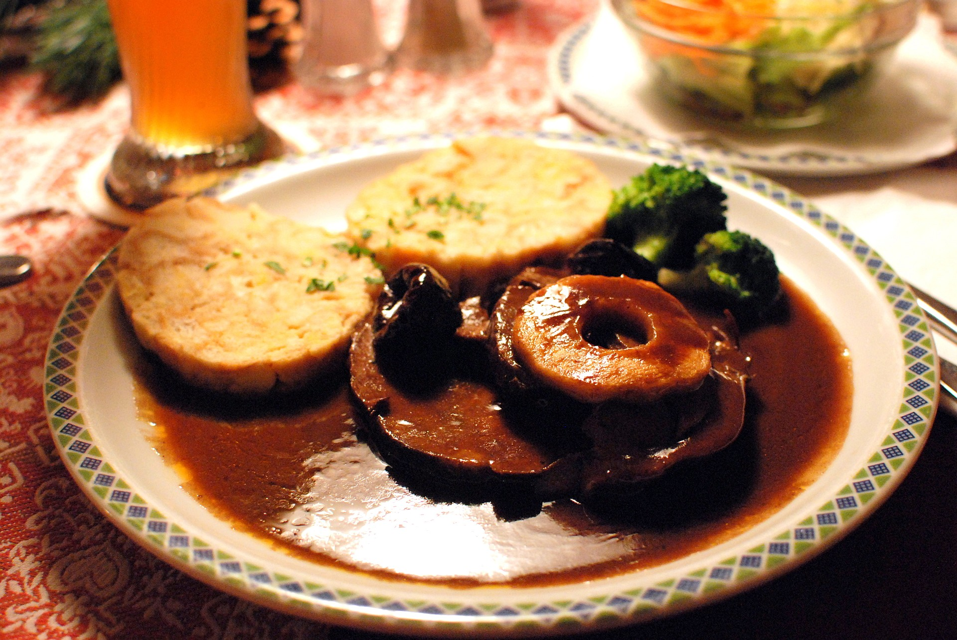 Tiroler Wildschweinbraten mit Buttermilchservietten is Tyrolean style roasted wild boar with "buttermilk napkins". The "buttermilk napkins" are sliced dumplings made with bread and buttermilk which have been cooked wrapped inside a piece of cloth (hence the "napkin"). The photo was taken at a South Tyrolean restaurant in the town of Herrsching, Bavaria, Germany.